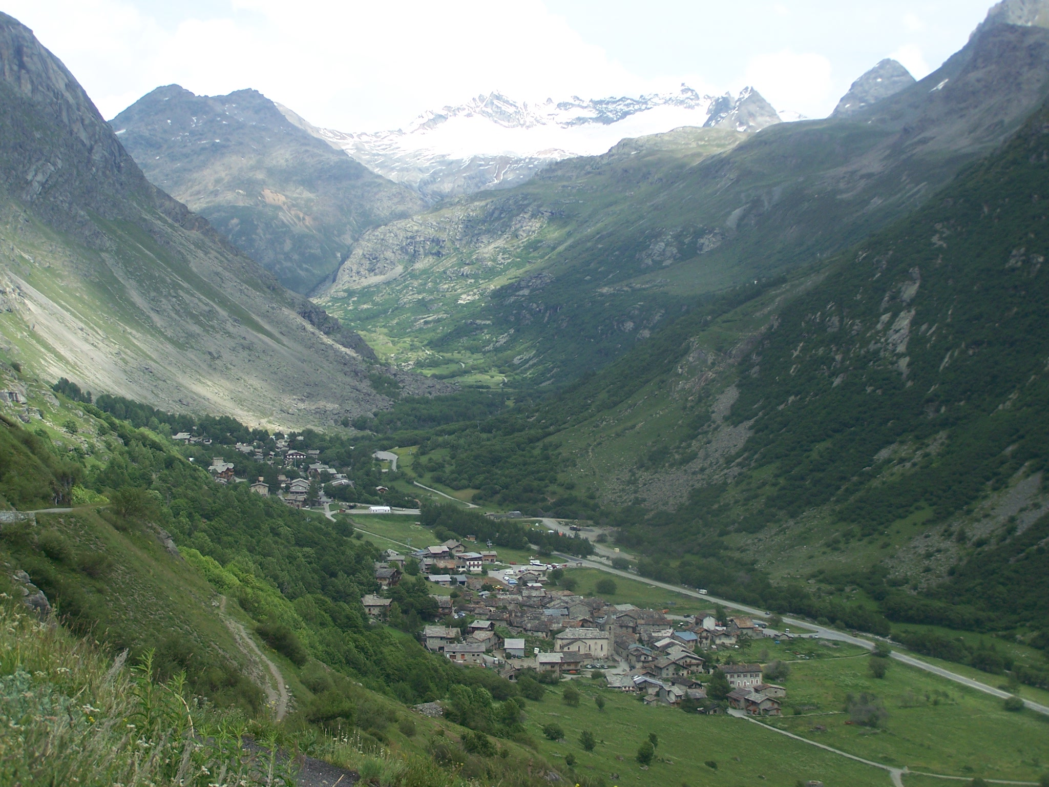 The little village of Bonneval-sur-Arc at the very end of the Maurienne valley, in the department of Savoie, France (French Alps).